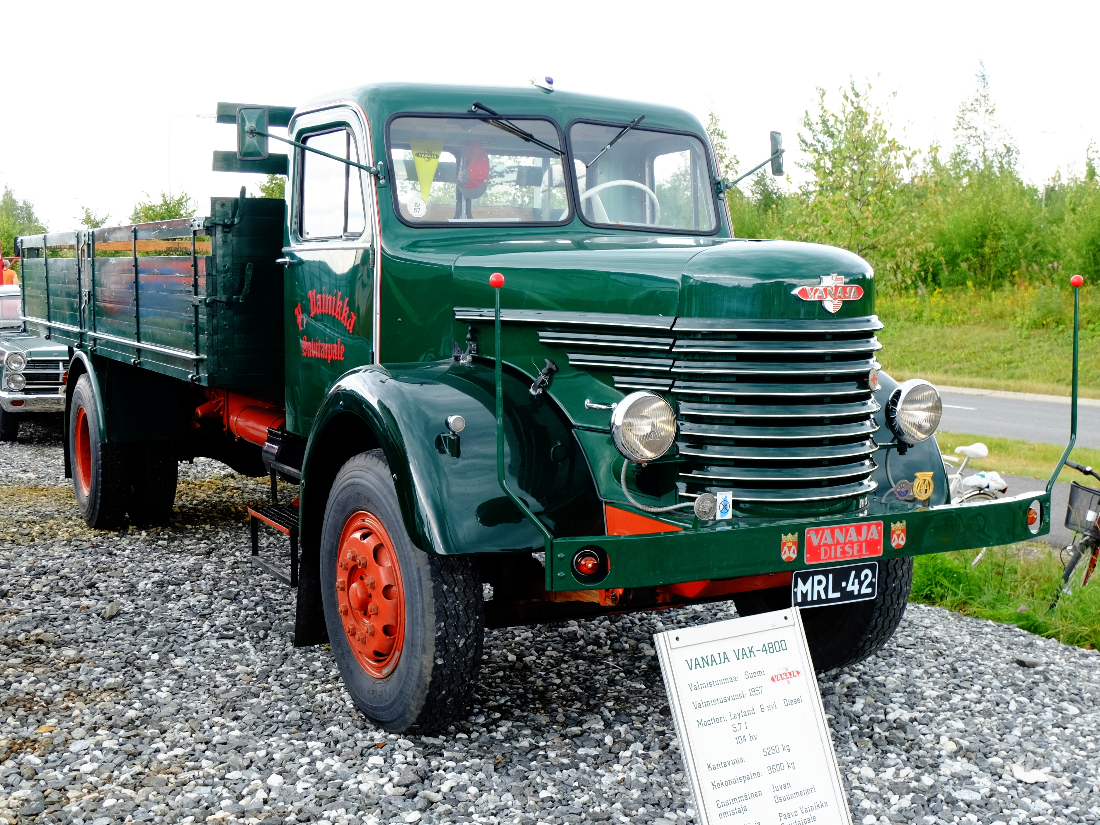 1957 Vanaja VAK-4800 lorry. Equipped with a 5.7-litre Leyland six-cylinder diesel engine (104 hp). Load capacity 5250 kg and a total mass of 9600 kg. The first owner of the lorry was a dairy in Juva.